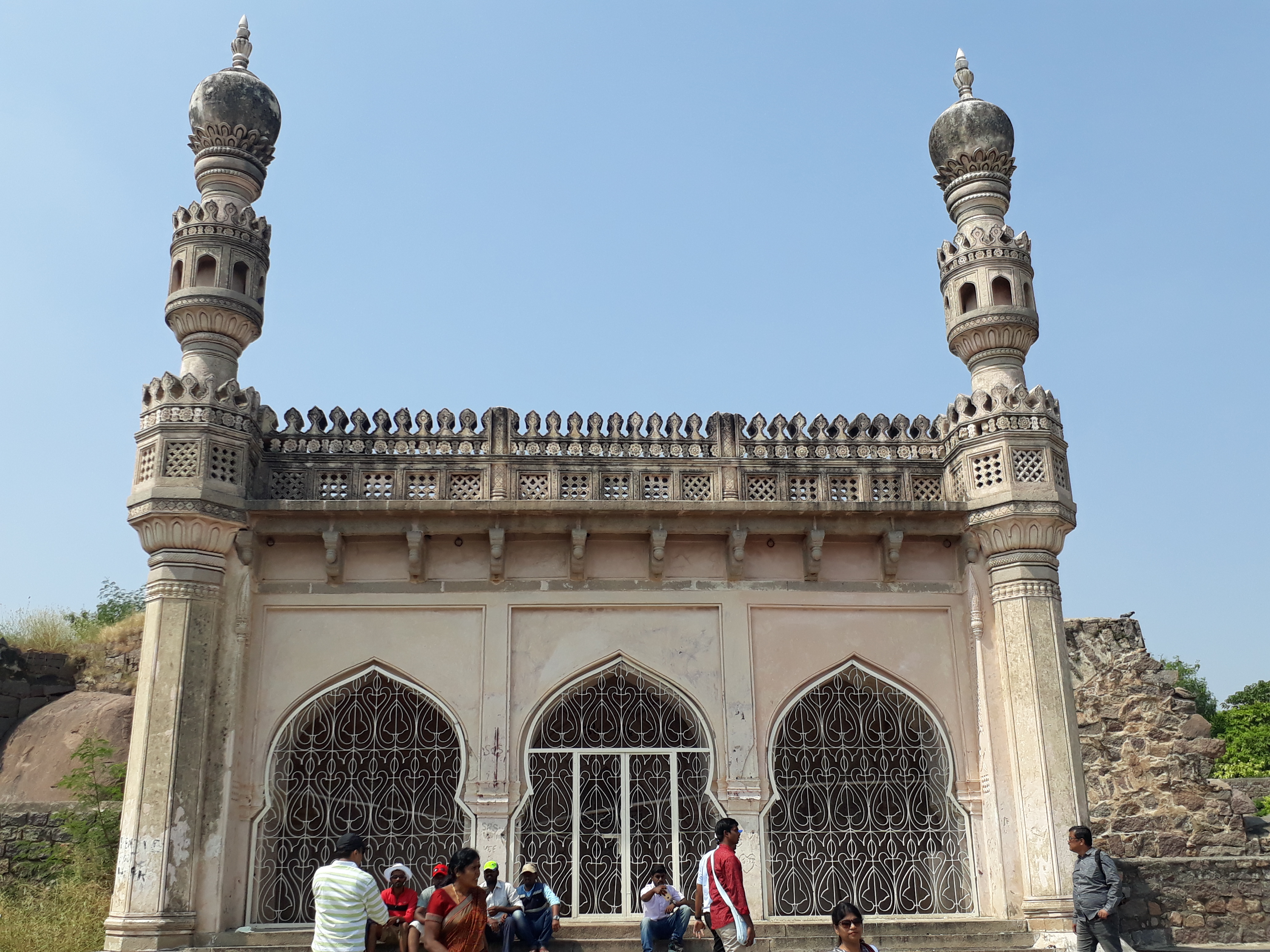 Mosque built by Ibrahim Quli Qutb Shah in Golconda Fort, India